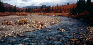 Agie river in Kobuk Valley National Park, Alaska, U.S.